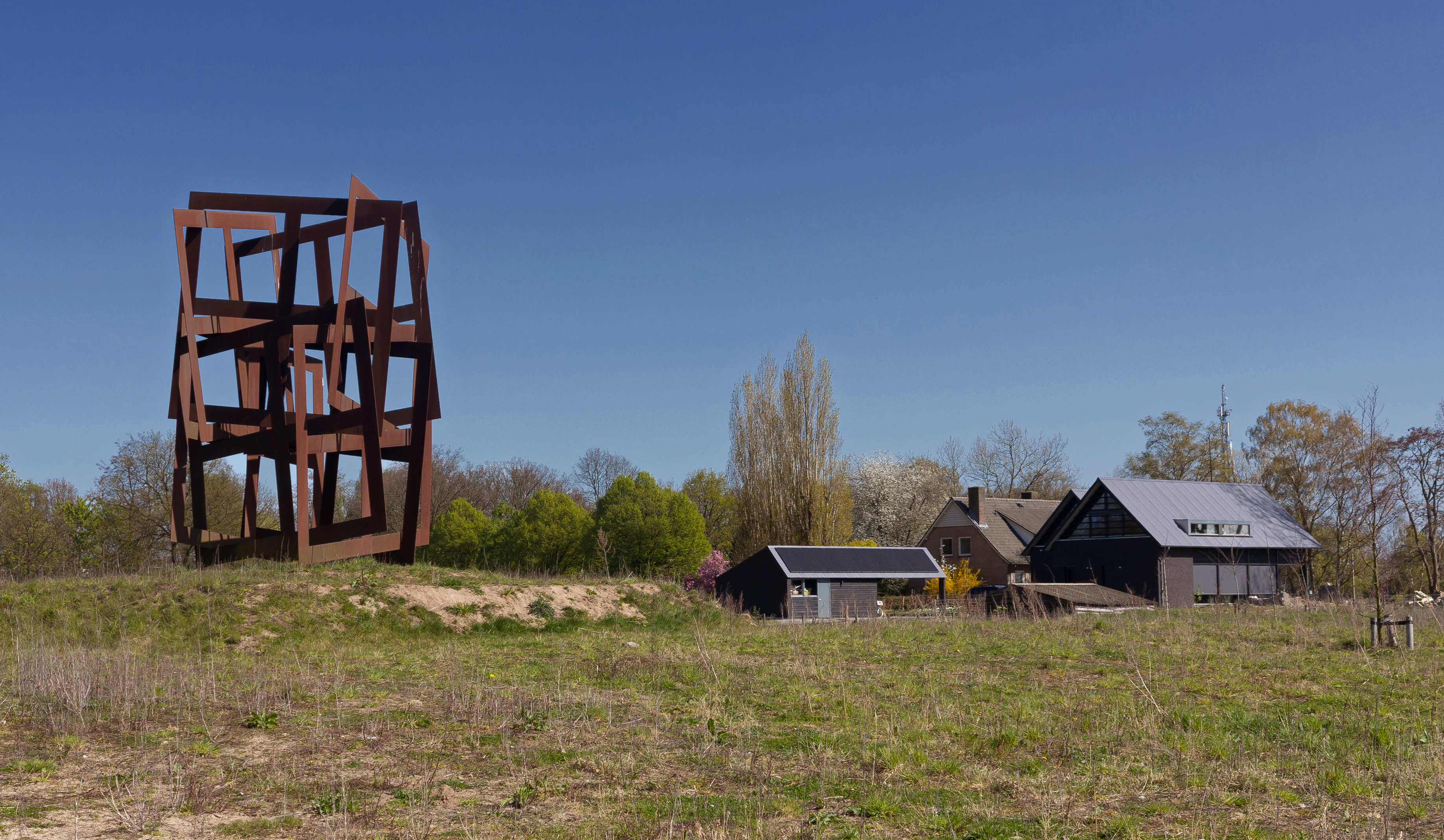 Rosmalen, street art: Running Squares (designed by Jan Goossen)